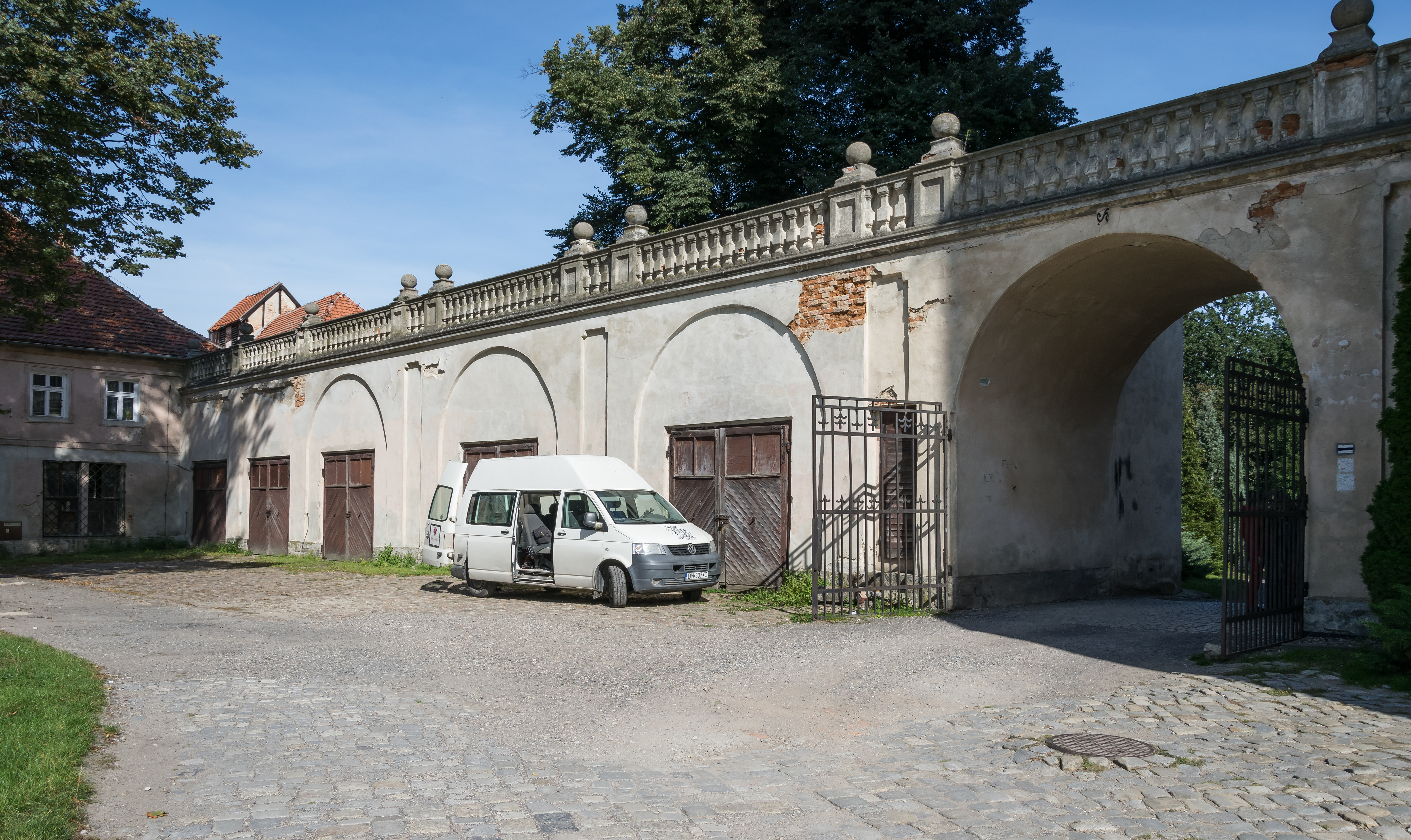 Carriage house in Henryków